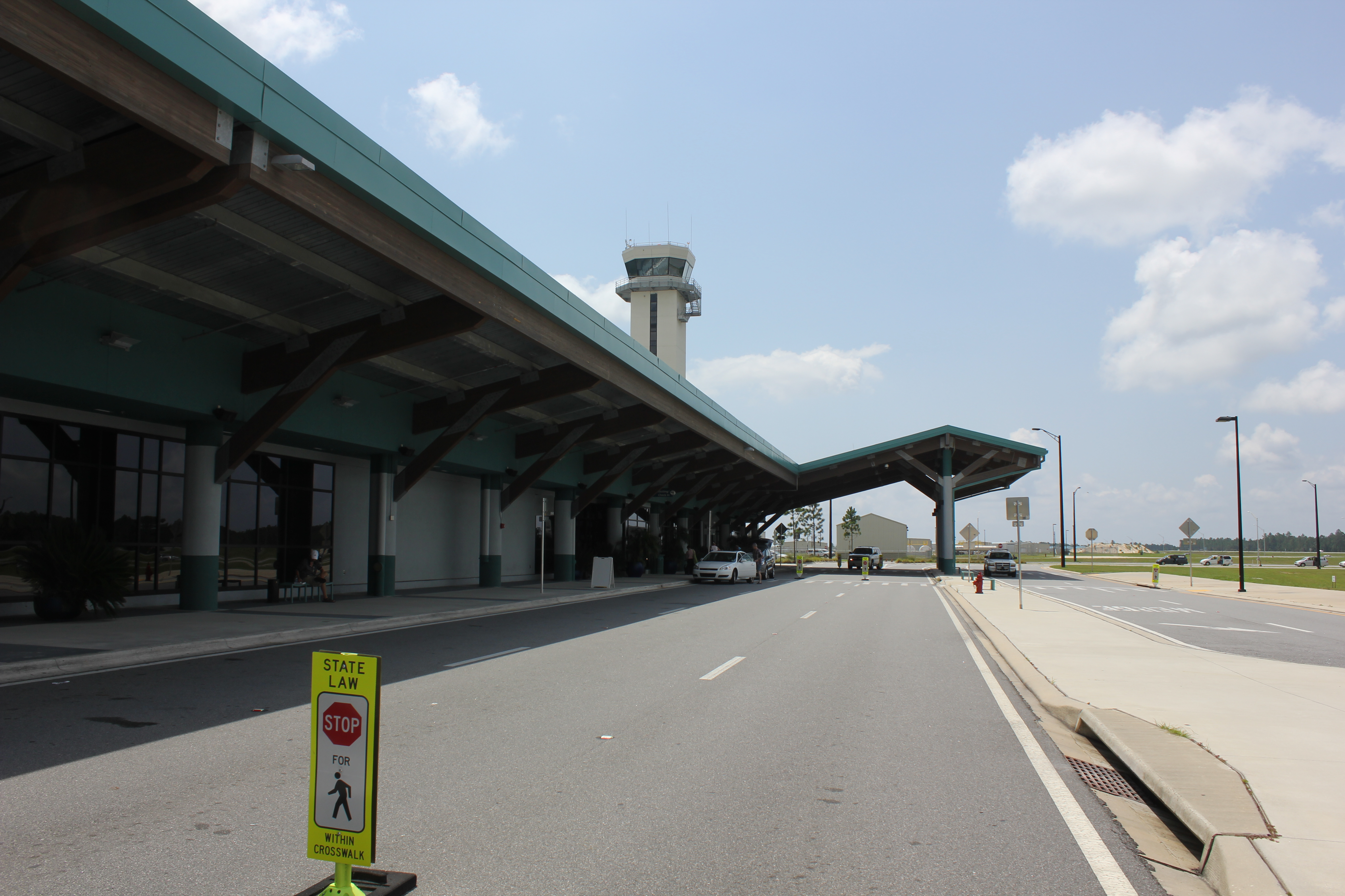 The only terminal at Florida Northwest Beaches International Airport...the newest international airport in the country (opened in 2010).